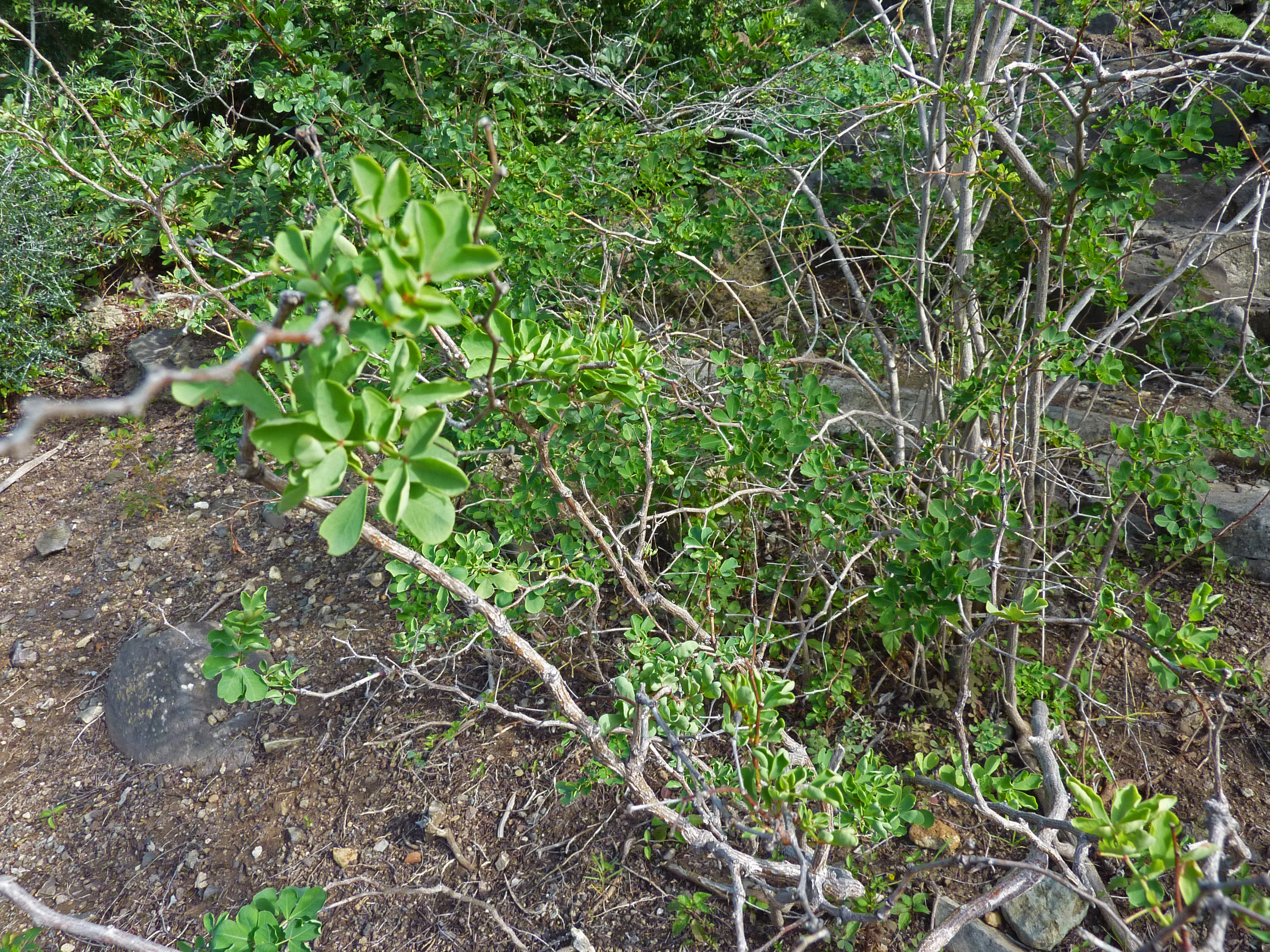 Dorycnium eriophthalmum in the Jardín Botánico Canario Viera y Clavijo.